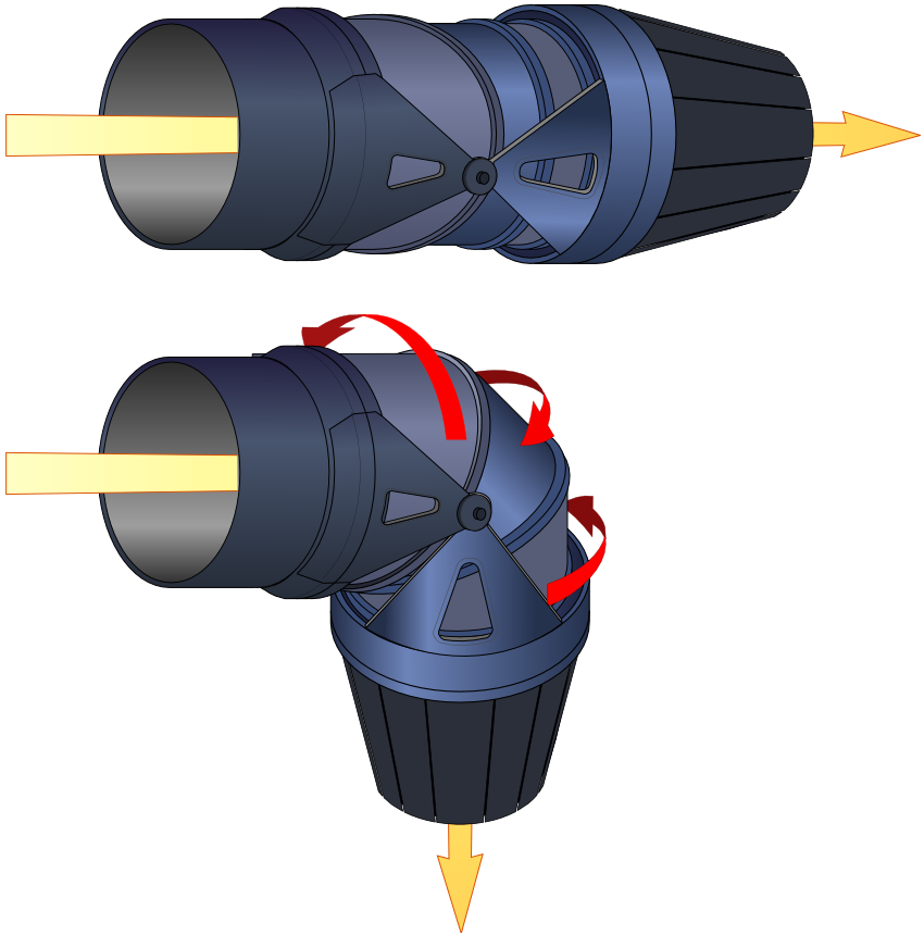 Jet engine F135 (STOVL variant)'s thrust vectoring nozzle (W/O text)